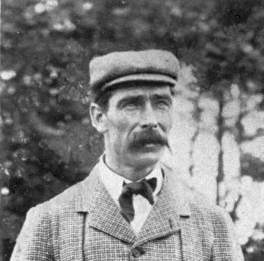 Joe Lloyd, the U.S. Open champion in 1897.